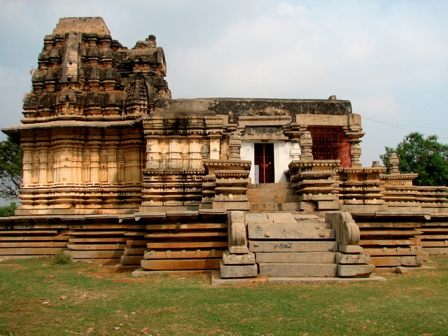 The pillalamarri temple of Suryapet in telangana has a history of 1000 years and is believed to be one of the oldest temples of Nalgonda district in Telangana state.